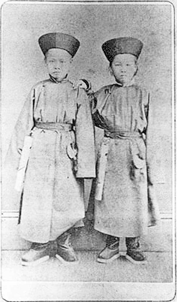 Jeme Tien Yow and Paun Min Chung arrived in New Haven, CT, in 1872. Jeme Tien Yow is on the left, and Paun Min Chung is on the right.